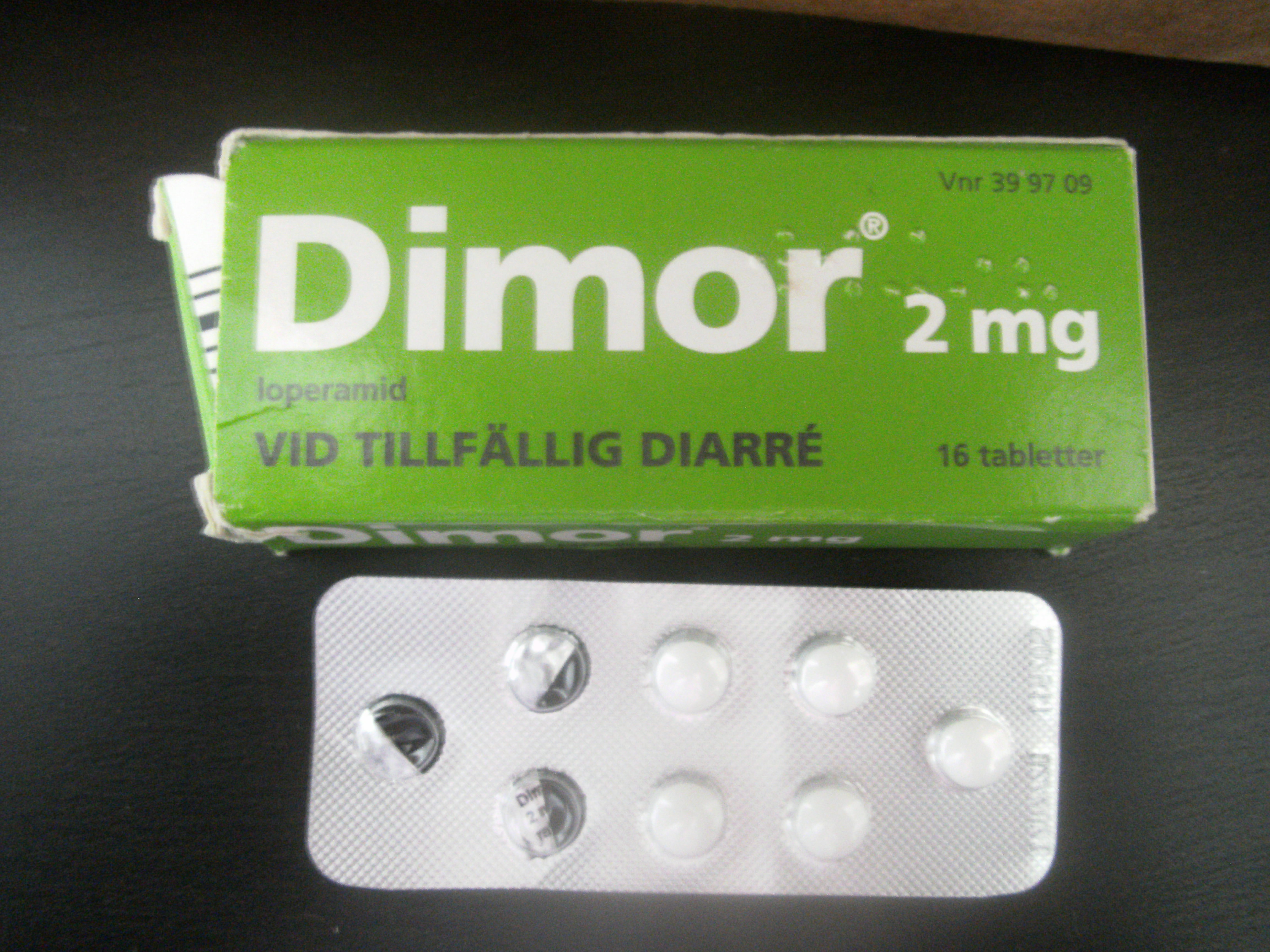 Swedish brand of loperamide